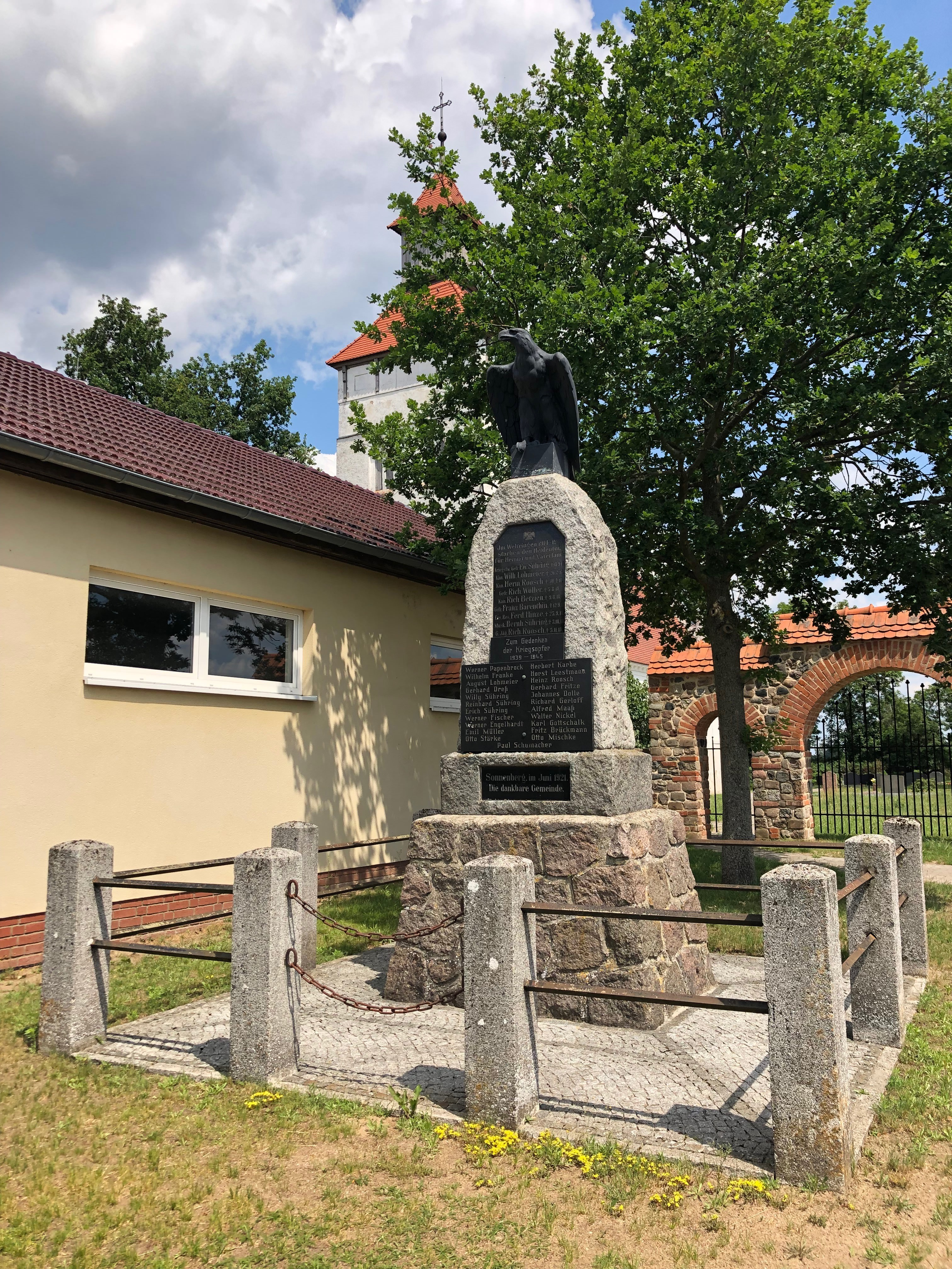 War memorial of the village Sonnenberg, inaugurated in June 1921